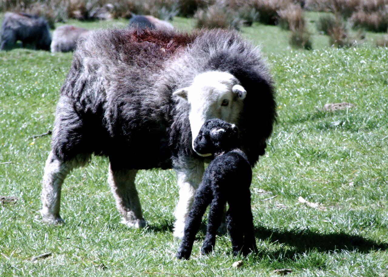 A Herdwick ewe and lamb